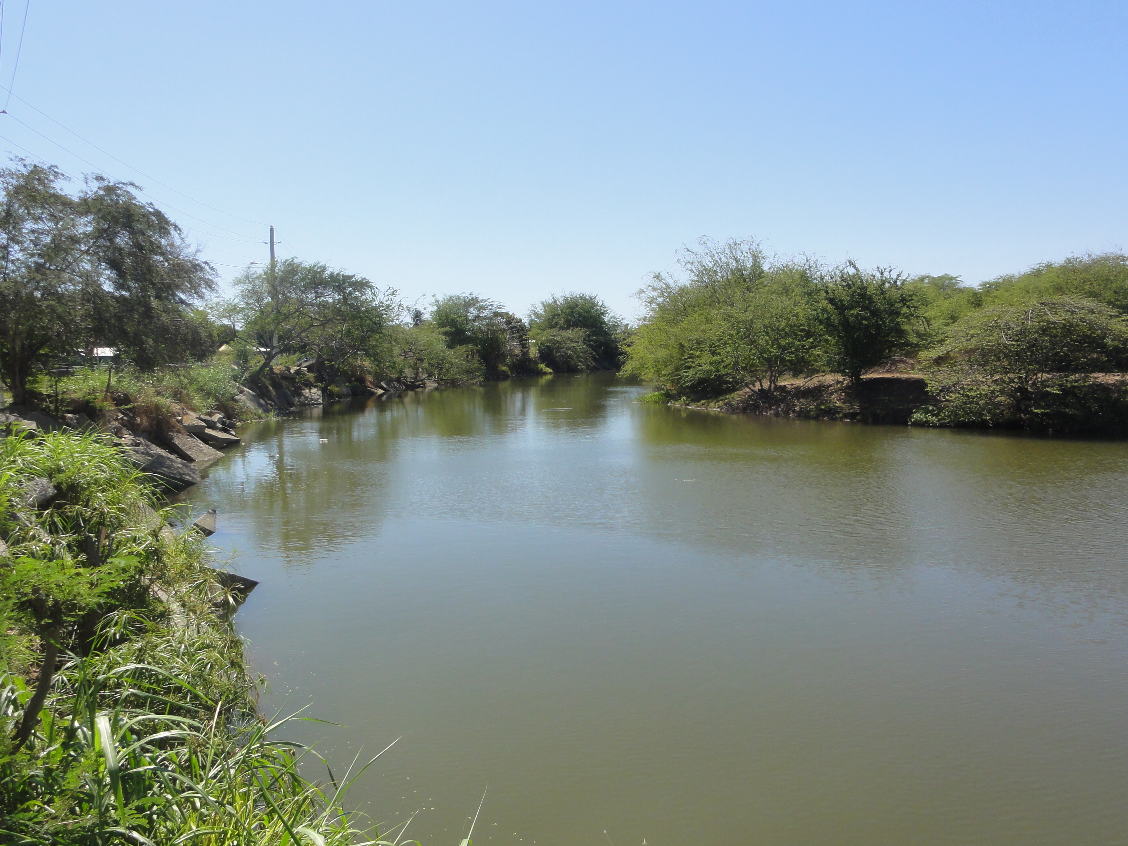 Rio Jacaguas, a 100 pies de su desembocadura en el Mar Caribe, mirando hacia el sur, Bo. Capitanejo, Juana Diaz, PR (DSC05621)